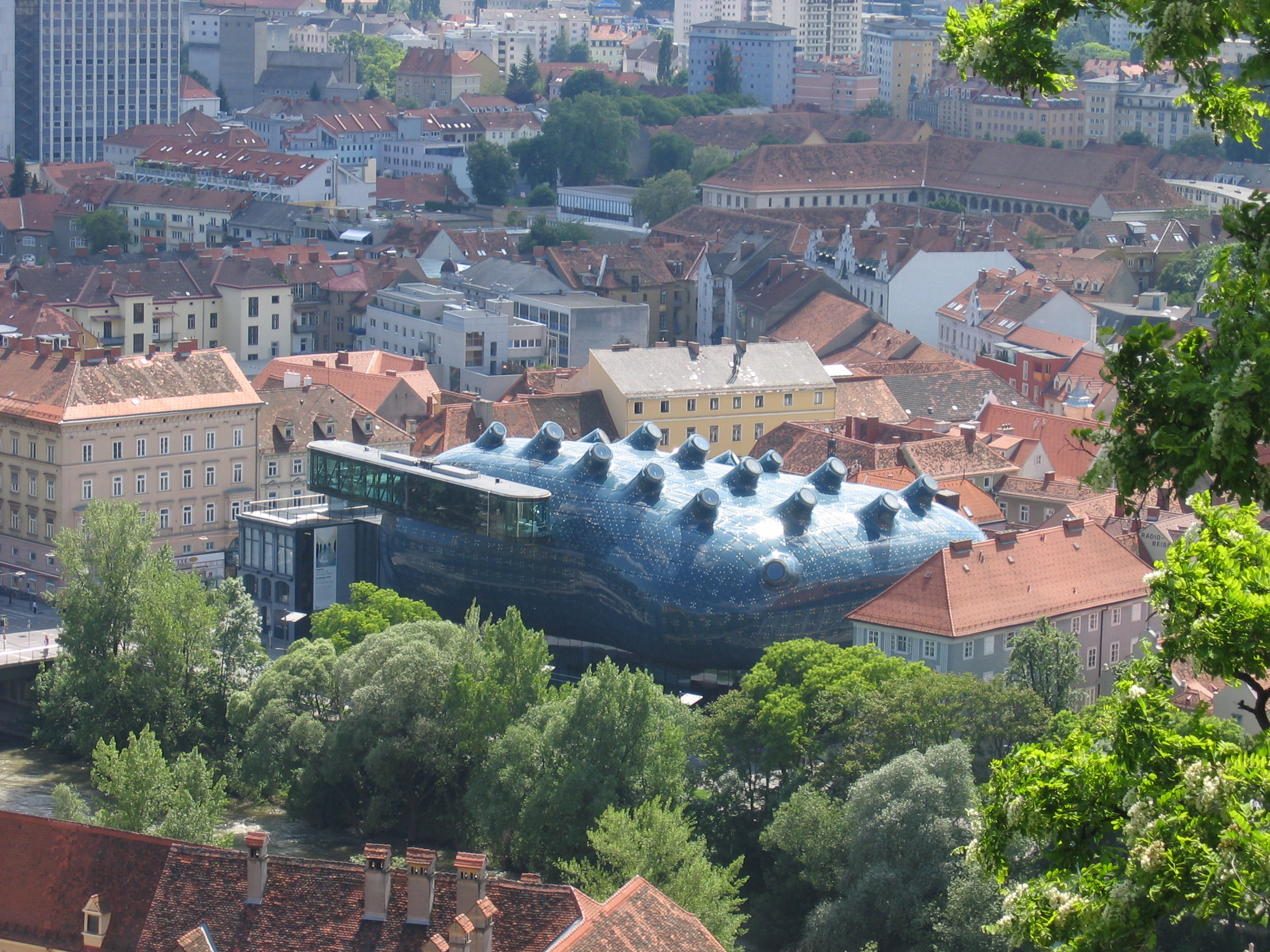 Kunsthaus Graz, Austria, from London architects Peter Cook and Colin Fournier, seen from the Schlossberg hill